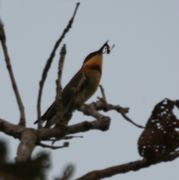 Chestnut-headed Bee-eater Merops leschenaulti in Kinnerasani Wildlife Sanctuary, Andhra Pradesh, India.